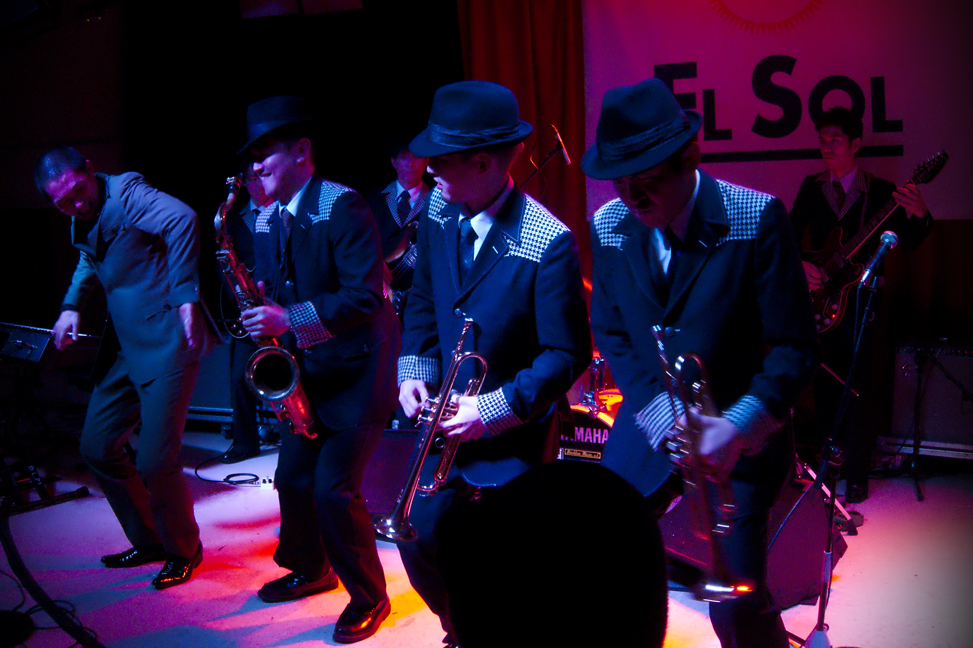 Japanese funk band Osaka Monaurail. The closest you can get to an old-school James Brown performance -- but coming from the far east instead! Sala El Sol (Madrid). 2012.04.03